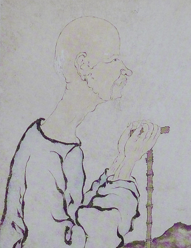 Portraite of Ding Gin (1695-1765) seal engraver, calligrappher, and painter. The detail of the portraite painting by Luo Ping